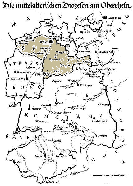 bishopric of speyer in the middle ages